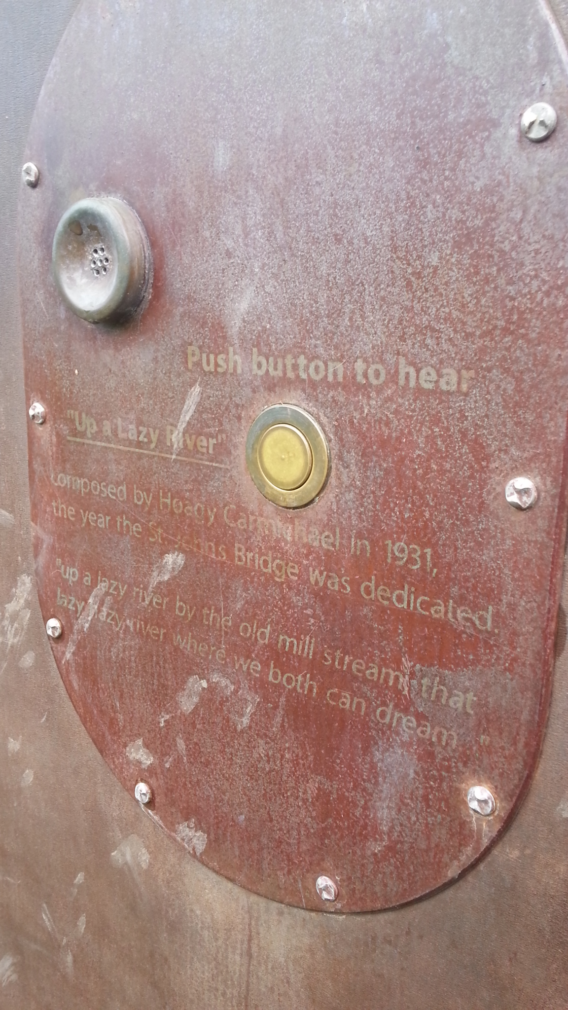 Close up of a sign describing permanent outdoor exhibit of a metal river at Cathedral Park, under the St. John's Bridge in Portland Oregon, installed with music box tune of Hoagy Carmichael's "Up A Lazy River", the year the bridge was built. According to the plaque, it was 1931.